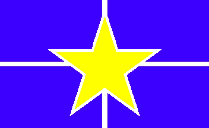 Flag of Congress of Democrats Party (according to the original)